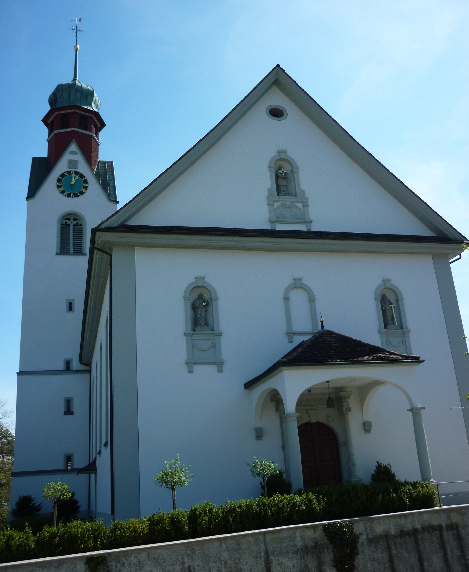 St. Peter and Paul church, Beinwil Freiamt AG, Switzerland Pfarrkirche St. Peter und Paul, Beinwil Freiamt AG, Schweiz